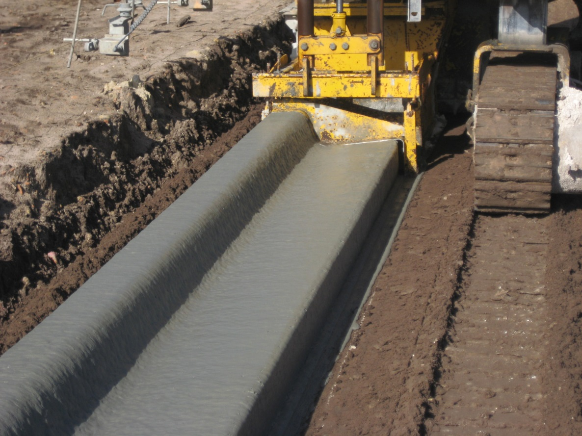 A curb being poured for the Poinciana Parkway, along Kinney Harmon Road, near Loughman, Florida